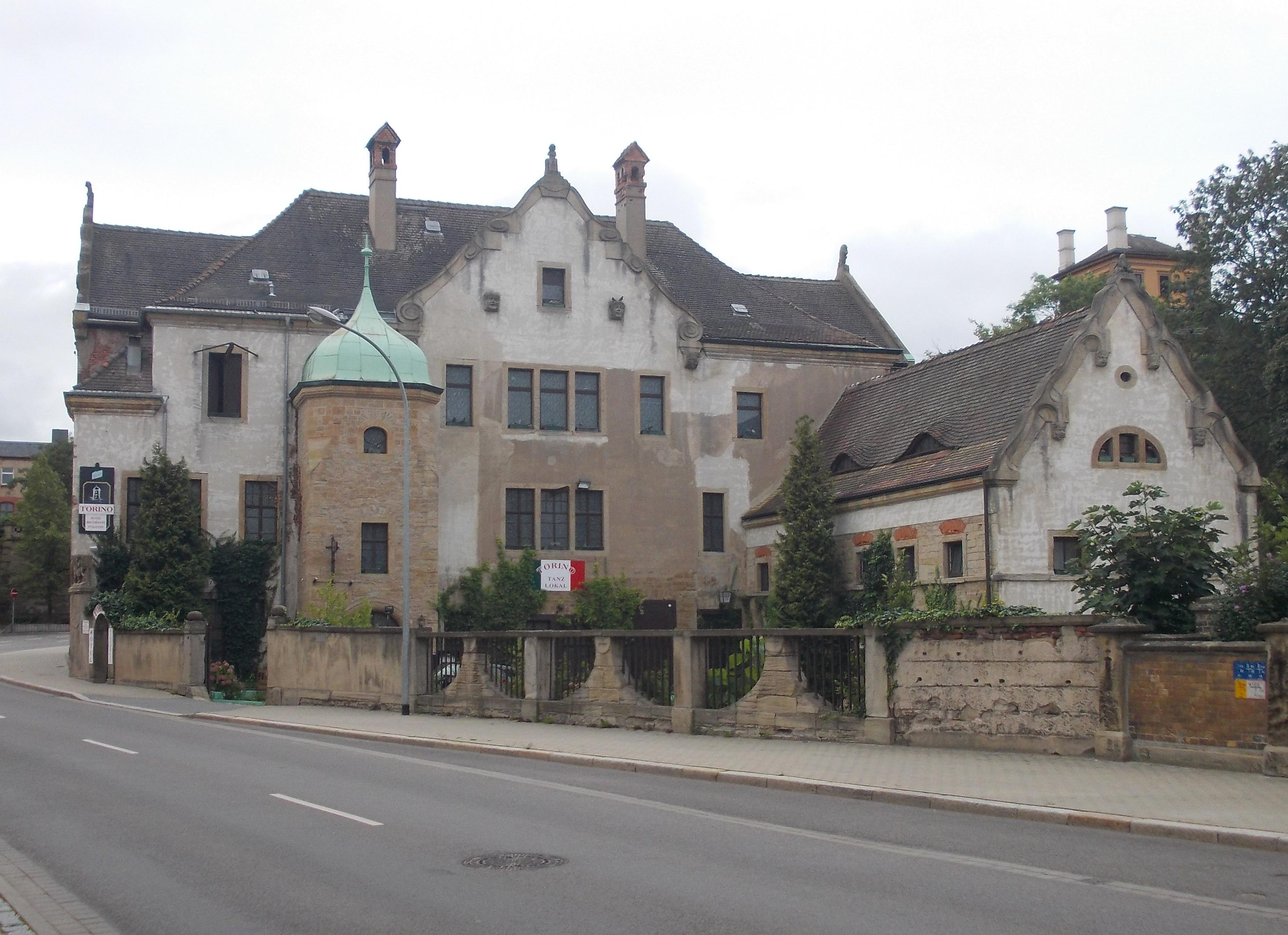 MIttelmühle in Zeitz (district: Burgenlandkreis, Saxony-Anhalt)